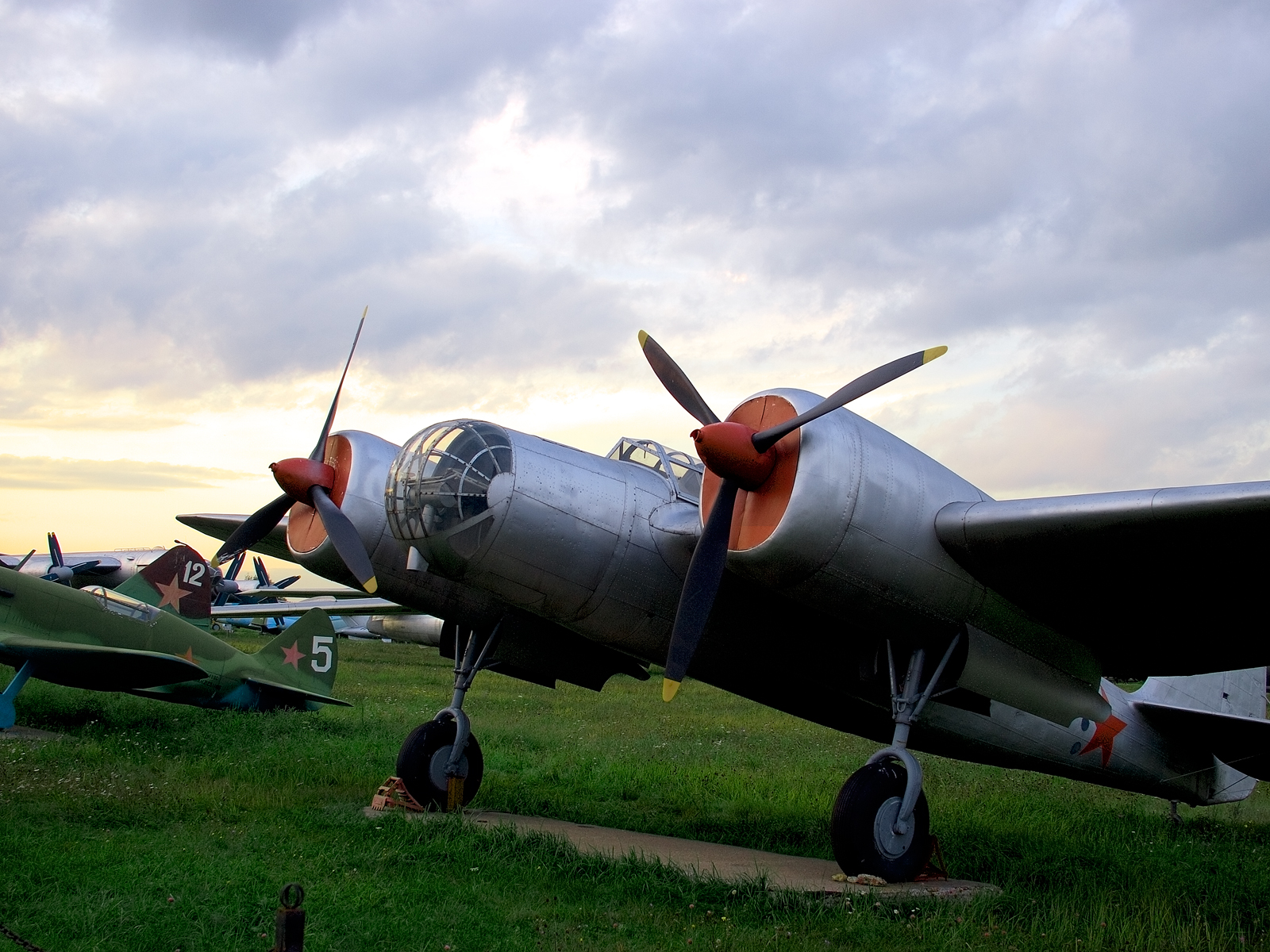 A Tupolev SB 2M-100A on display in Central_Air_Force_Museum.